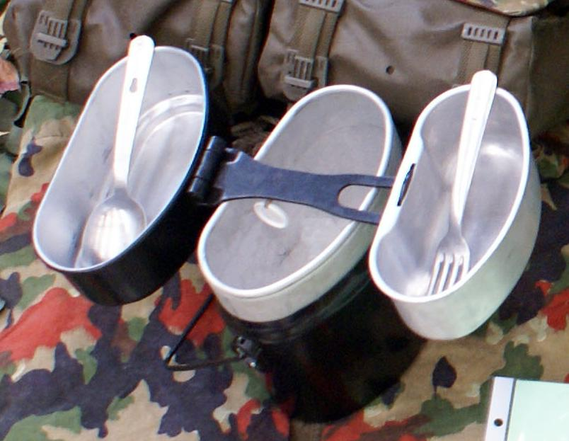 Swiss Army. mess kit and cutlery.